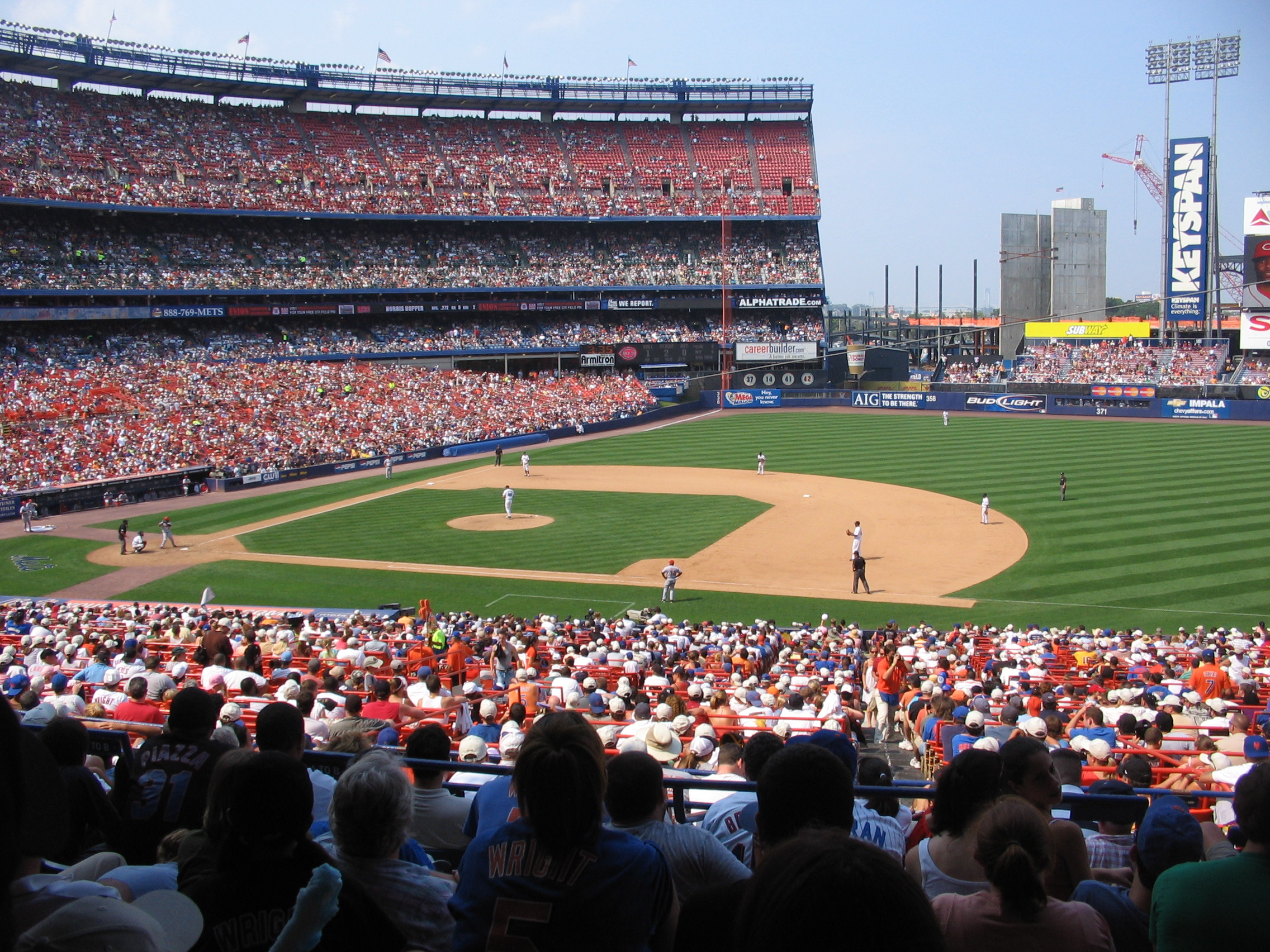 Shea Stadium - 2007 New York Mets-Cincinnati Reds